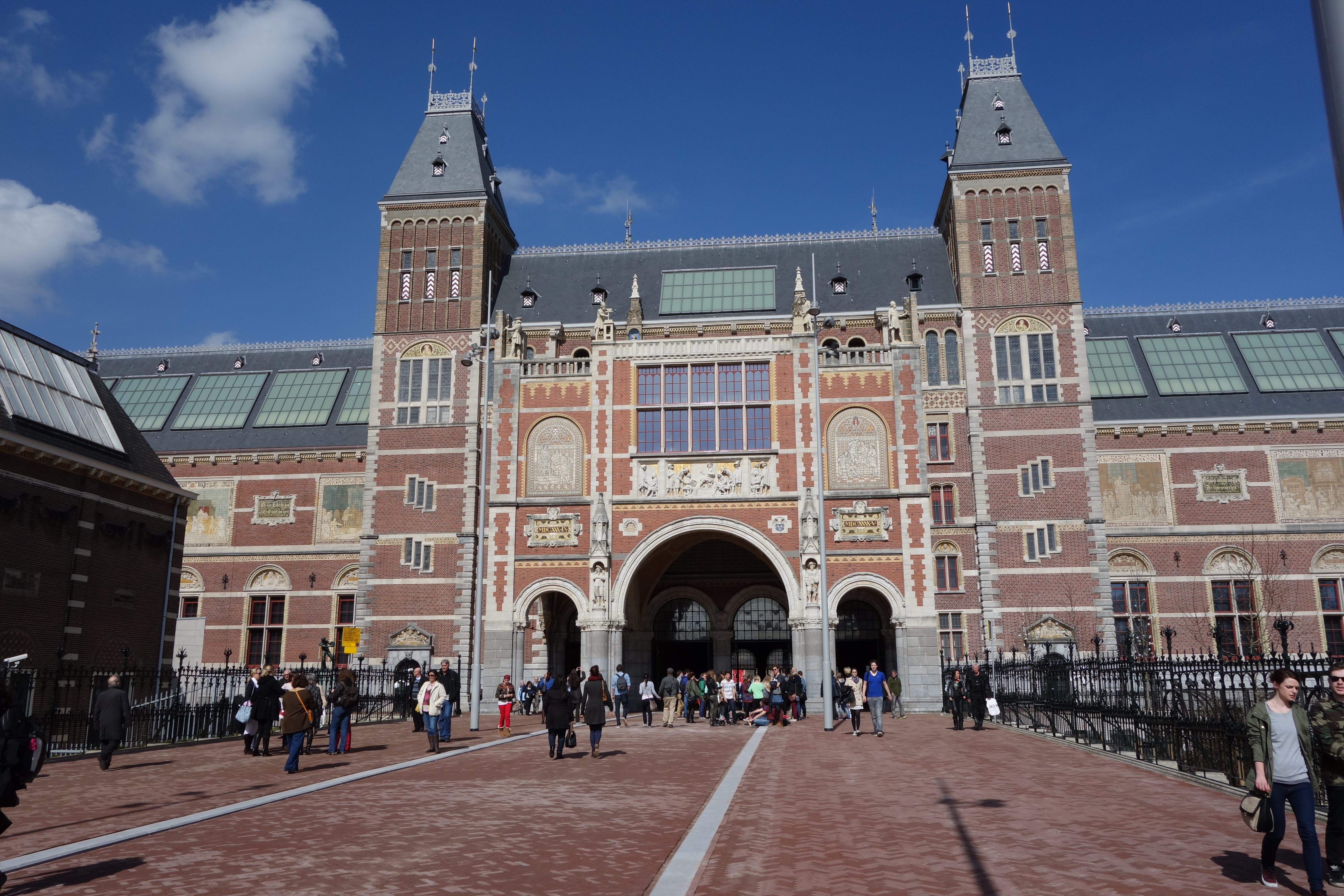 Visited two days after reopening. Highly recommended. Entrance.